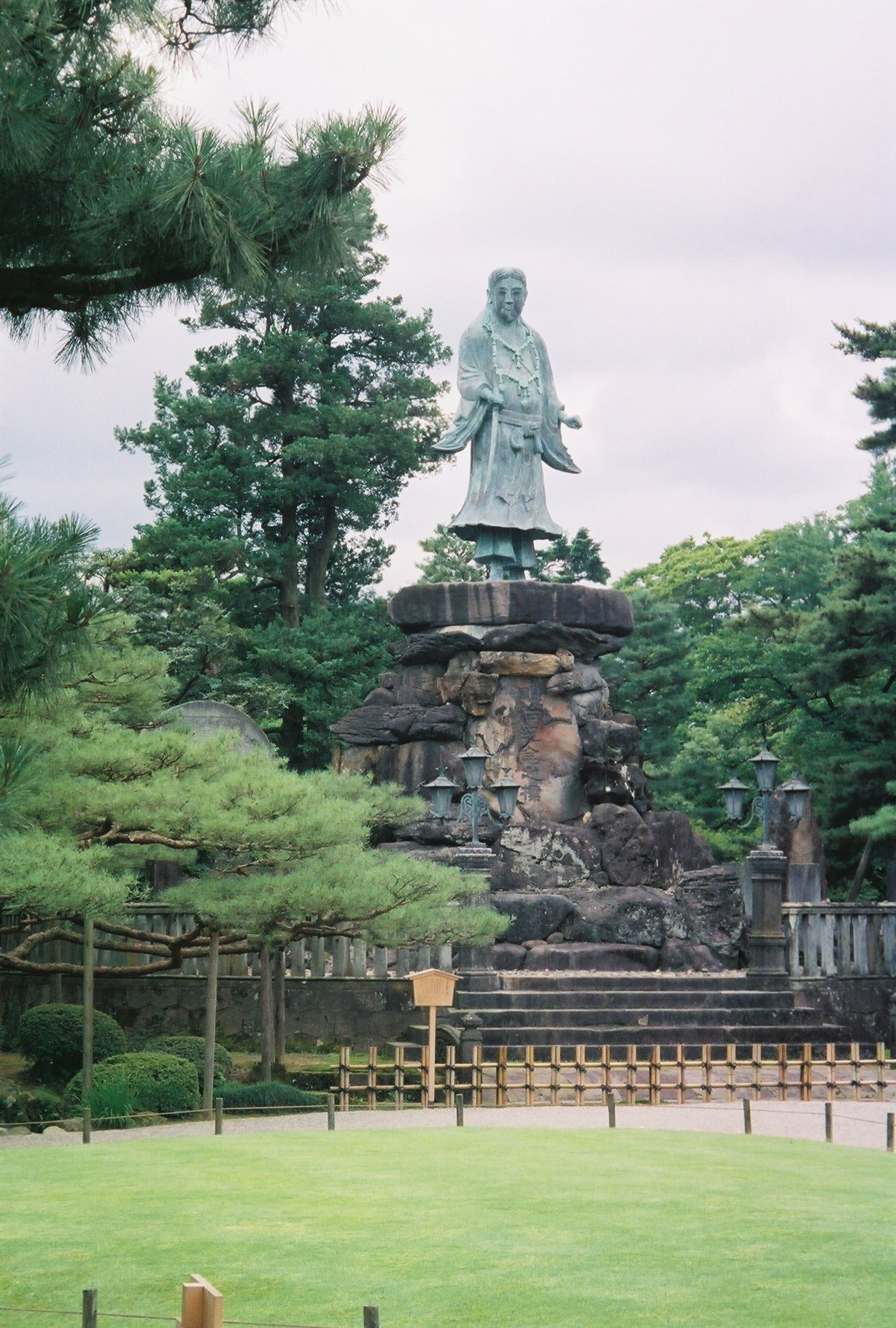 Kenroku-en Photo taken by me in July, 2006